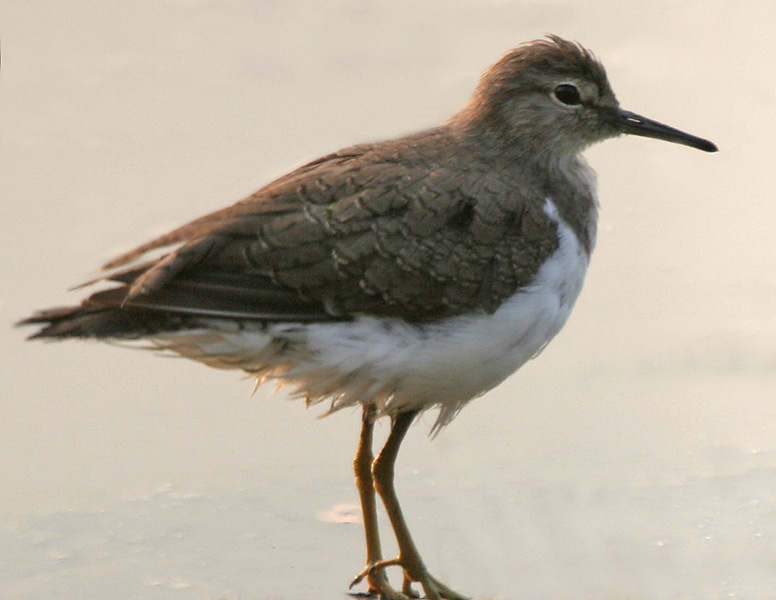 Common Sandpiper Actitis hypoleucos in Hyderabad, India.